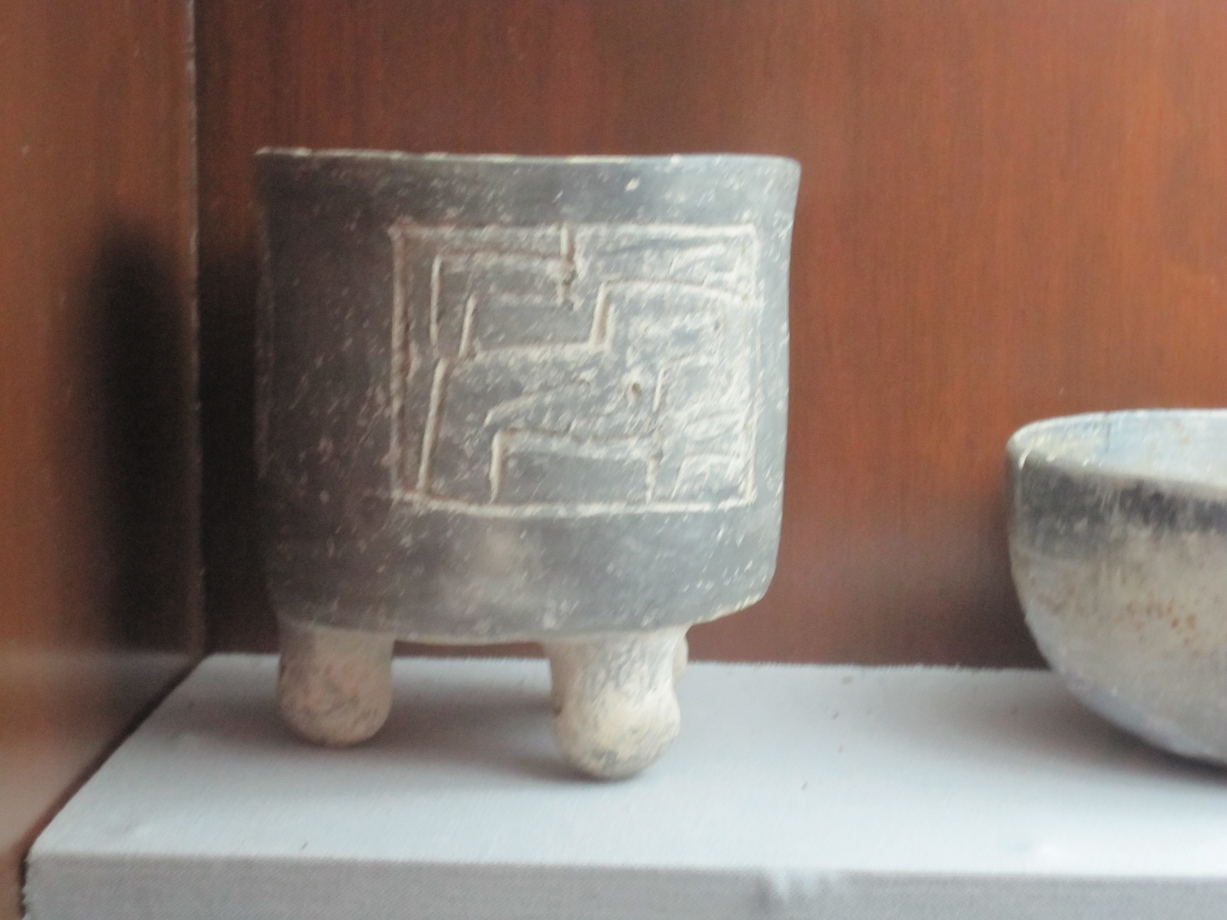 A ceramic vessel from San Jose Mogote with the typical imagery